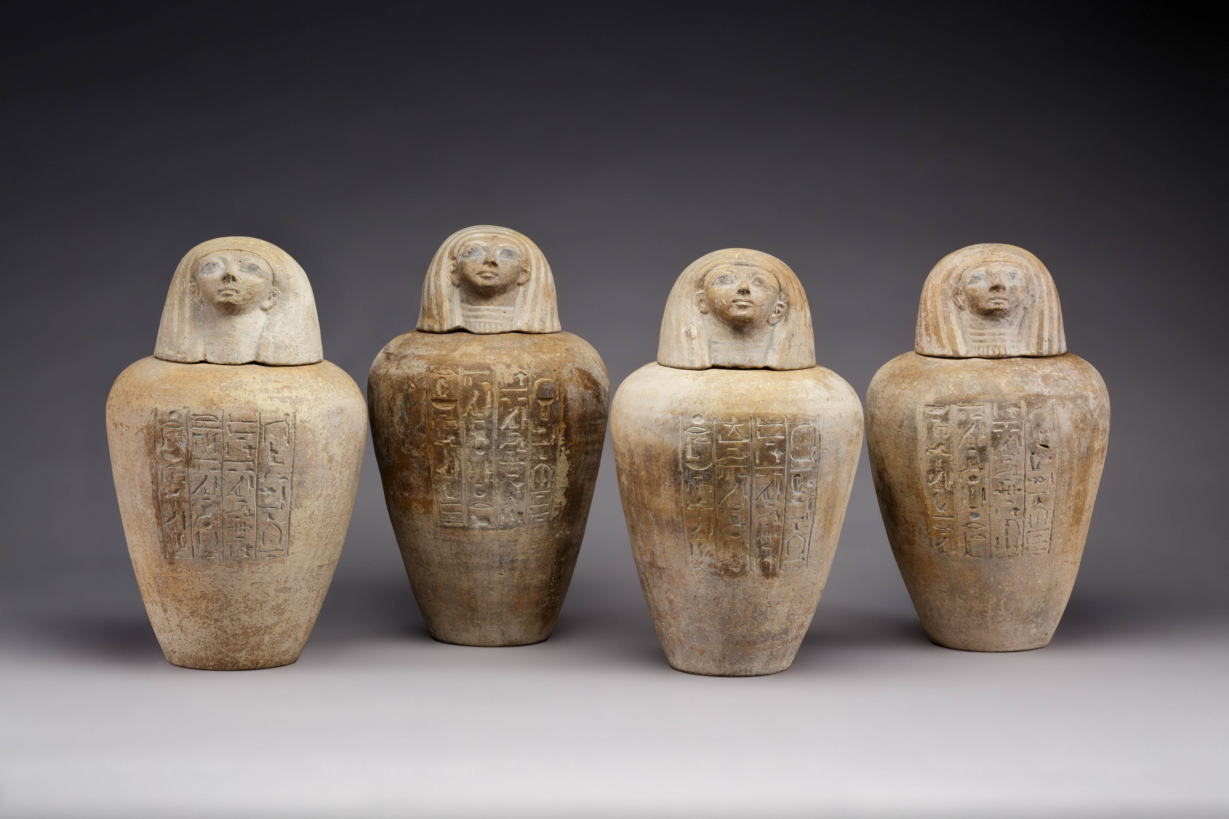 Canopic Jar, human head, Qebehsenuef